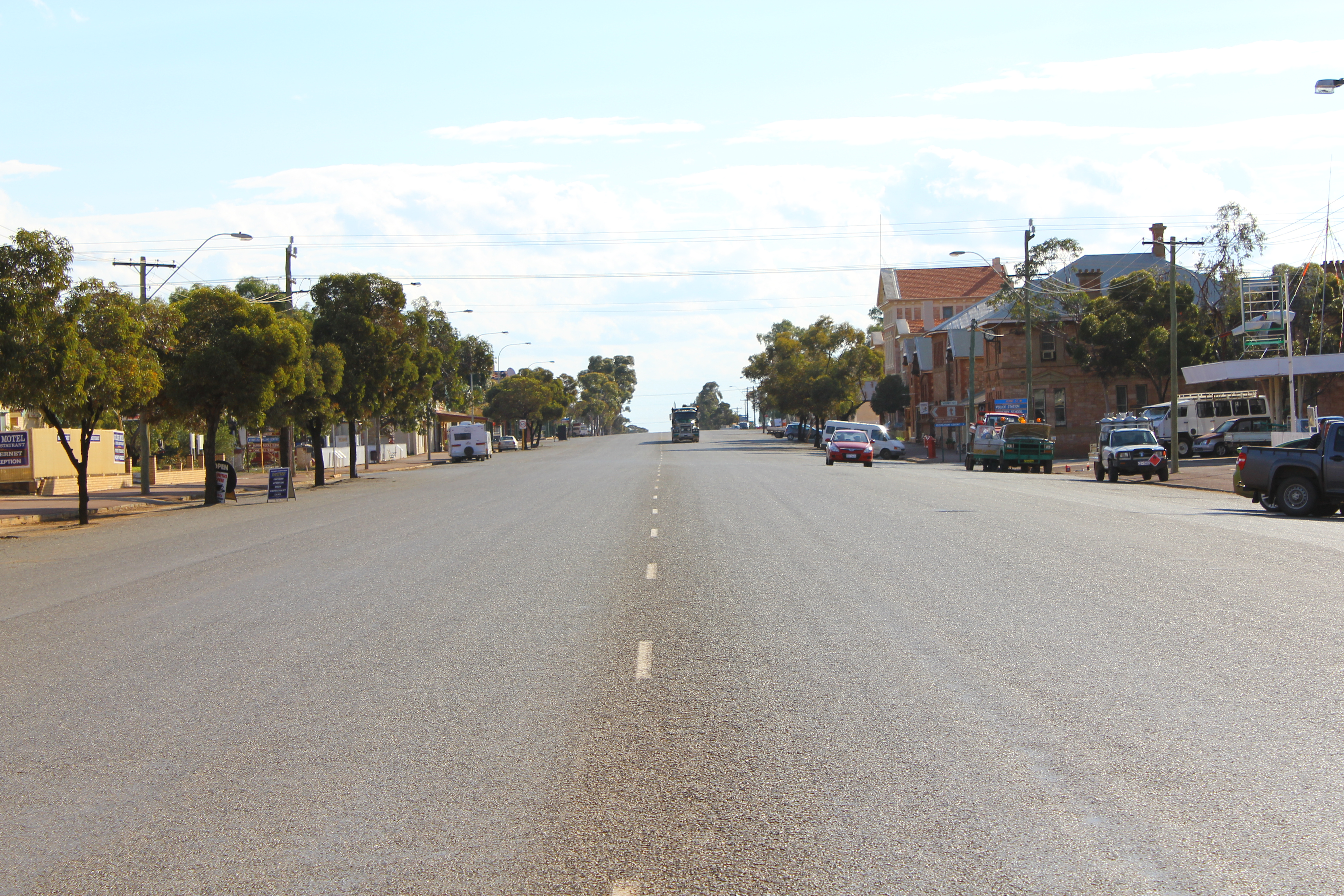 Great Eastern Highway in Coolgardie, looking west from near Hunt Street. Original description: Coolgardie High Street